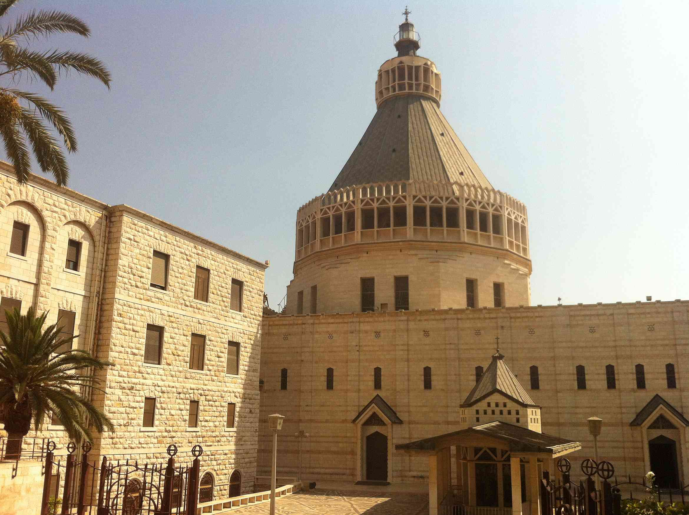 The Church of Annunciation is the church where the archangel Gabriel appeared in person to the virgin Maria. Die Verkündigungsbasilika von Nazareth ist die Kirche in der der Überlieferung nach der Erzengel Gabriel der Jungfrau Maria erschien. You're welcome to use this picture free of charge, as long as you follow the license terms. As a matter of courtesy a link (dofollow links are welcome!) to is much appreciated. Thank you! ————————–—–—–—–—–—–—–—–—–—–—–—–—–—–—– Du kannst dieses Bild gemäß der Lizenzbestimmungen unentgeltlich nutzen. Über eine Verlinkung (dofollow am liebsten) auf freuen wir uns. Danke!